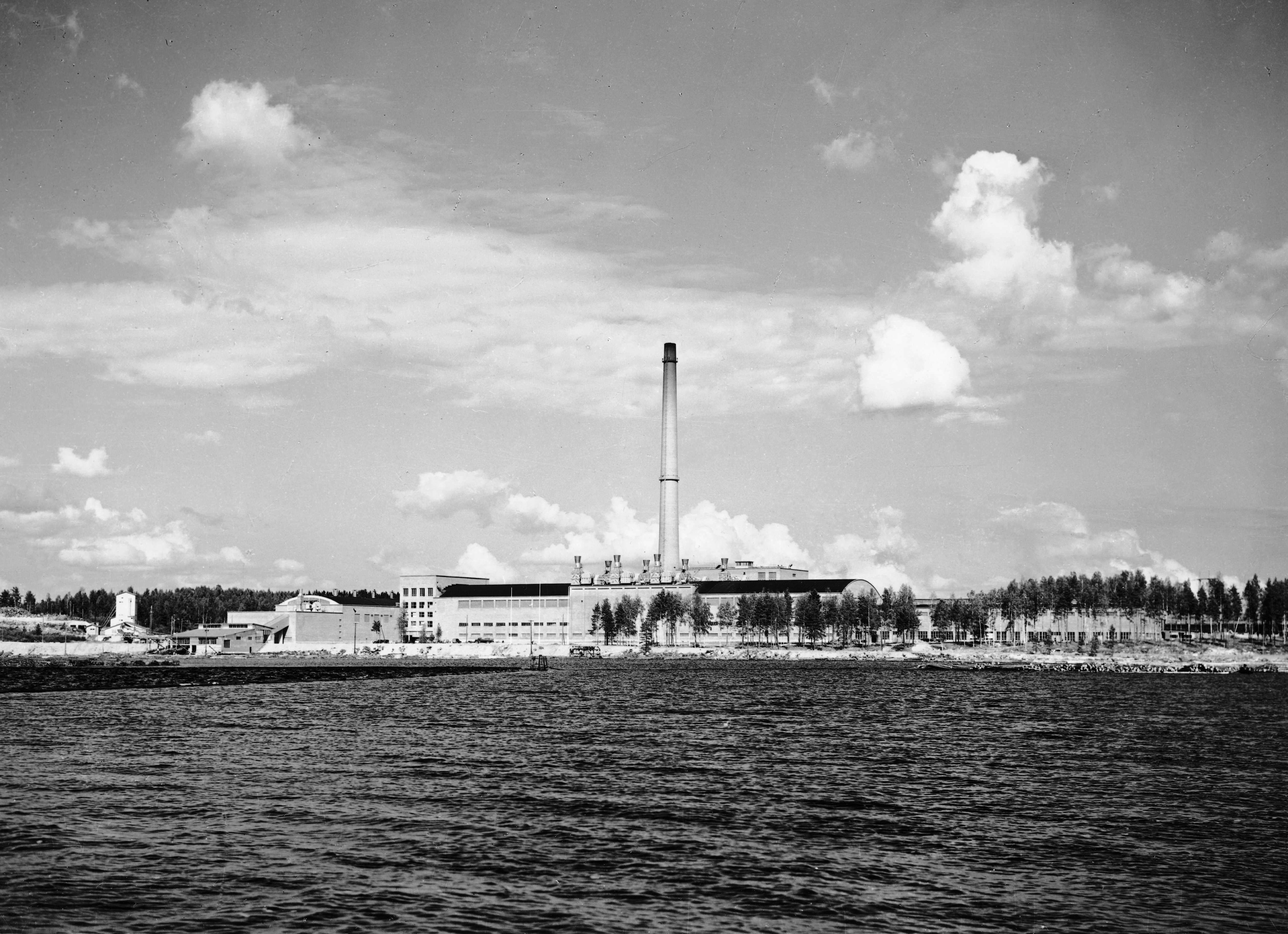 Kaipola paper mill in Jämsä, Finland in mid 1950s